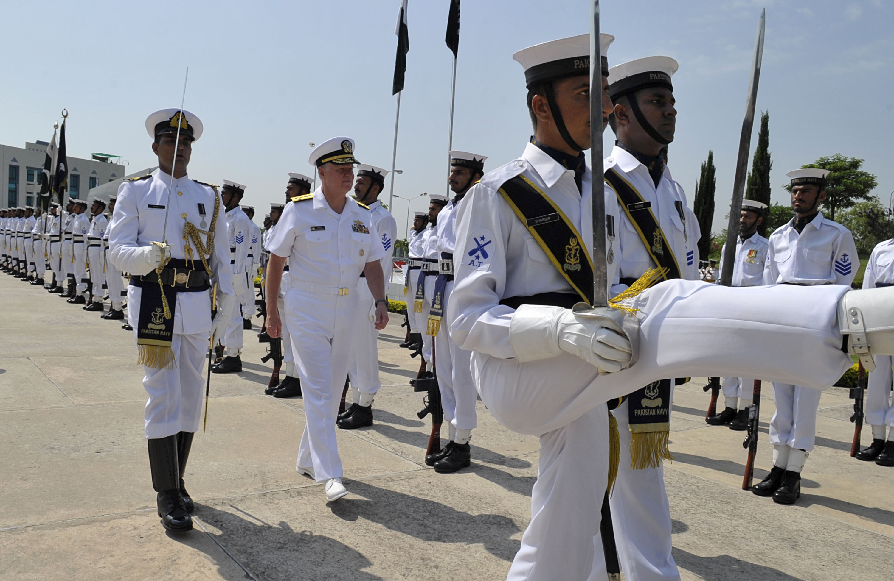 ISLAMABAD (Aug. 20, 2009) Chief of Naval Operations (CNO) Adm. Gary Roughead, middle, inspects Pakistan Navy sailors during a welcoming ceremony at Pakistan Naval Headquarters. Roughead visited Islamabad during an official counterpart visit to Pakistan to strengthen maritime partnerships. (U.S. Navy photo by Mass Communication Specialist 1st Class Tiffini Jones Vanderwyst/Released)